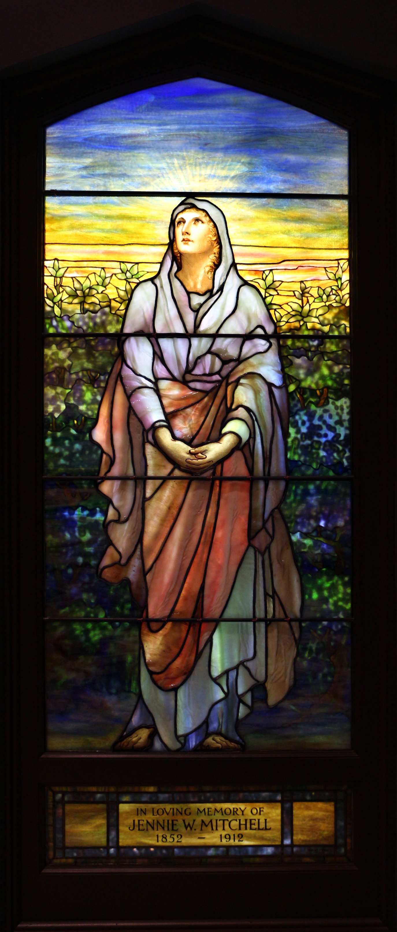 Glass in the Cincinnati Art Museum